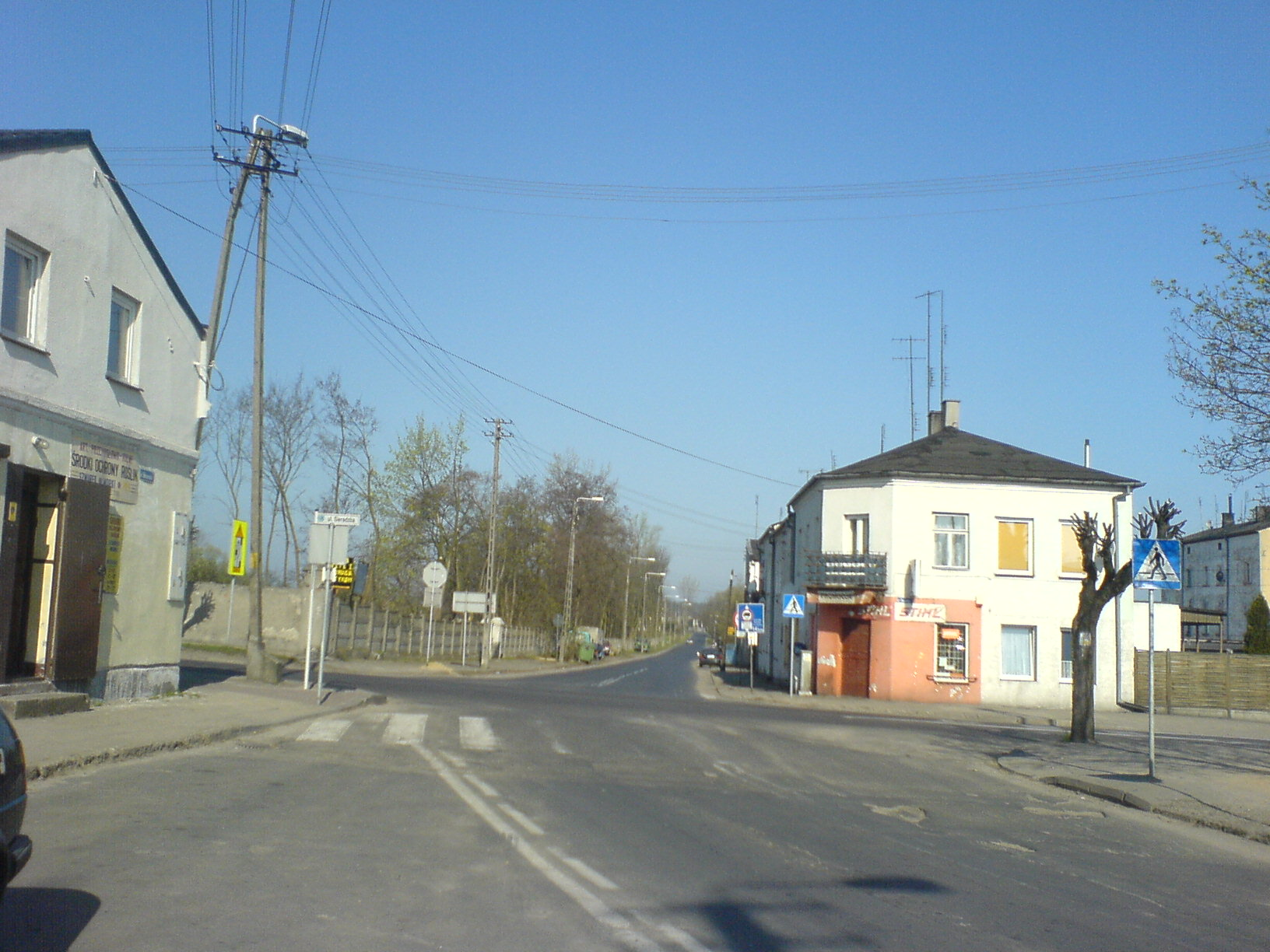 Złoczew (Poland, Łódź Voivodeship, Sieradz County), Błaszkowska Street